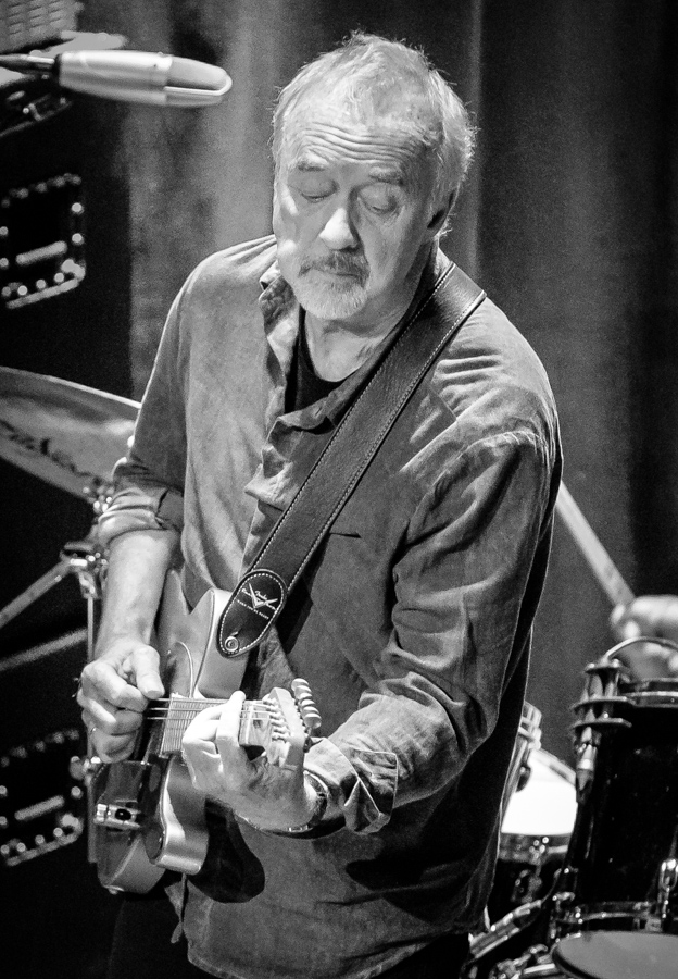 with The Organ Club «Club7 revival» at Cosmopolite in Soria Moria. The concert took place on 26. October 2017. Lineup: Little Earl Wilson (vocal), Susanne Fuhr (vocal), Calle Neumann (saxophone), Vidar Johansen (saxophone), Erik Wesseltoft (guitar), Kjell Larsen (guitar), Brynjulf Blix (organ), Miki N`Doye (percussion), Bugge Wesseltoft (organ), Sveinung Hovensjø (bass guitar), Bjørn Jensen (drums) and Charles Mena (drums).